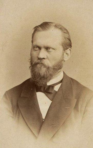 Emil Ernst August Tietze's portrait